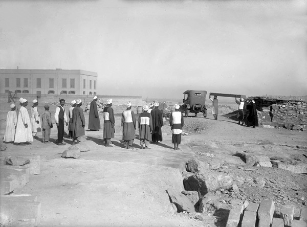 excavation of tomb G 7000 X of Hetepheres I at giza, box containing gold beam leaving for Harvard Camp and men watching, looking North